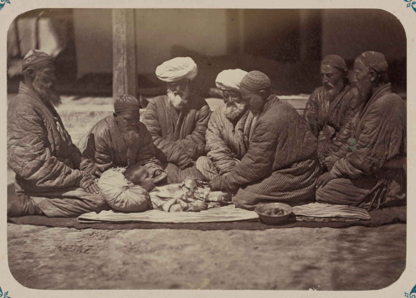 This photograph is from the ethnographical part of Turkestan Album, a comprehensive visual survey of Central Asia undertaken after imperial Russia assumed control of the region in the 1860s. Commissioned by General Konstantin Petrovich von Kaufman (1818–82), the first governor-general of Russian Turkestan, the album is in four parts spanning six volumes: “Archaeological Part” (two volumes); “Ethnographic Part” (two volumes); “Trades Part” (one volume); and “Historical Part” (one volume). The principal compiler was Russian Orientalist Aleksandr L. Kun, who was assisted by Nikolai V. Bogaevskii. The album contains some 1,200 photographs, along with architectural plans, watercolor drawings, and maps. The “Ethnographic Part” includes 491 individual photographs on 163 plates. The photographs show individuals representing the different peoples of the region (Plates 1–33); daily life and rituals (Plates 34–91); and views of villages and cities, street vendors, and commercial activities (Plates 92–163). Circumcision; Ethnographic photographs; Manners and customs; Photographic surveys; Rites and ceremonies; Turkic peoples